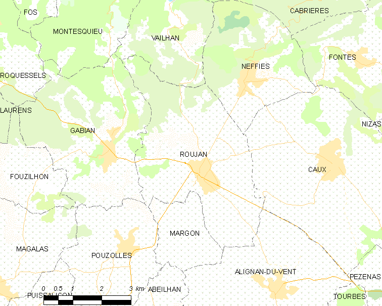 Map commune FR insee code 34237.png - Roujan